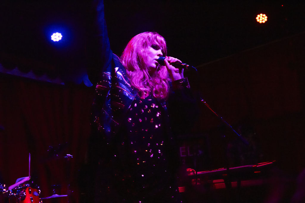 Holly Dodson performing with Parallels in Tuscon Arizona, in August 2012. Photo by Maxime Bocken.